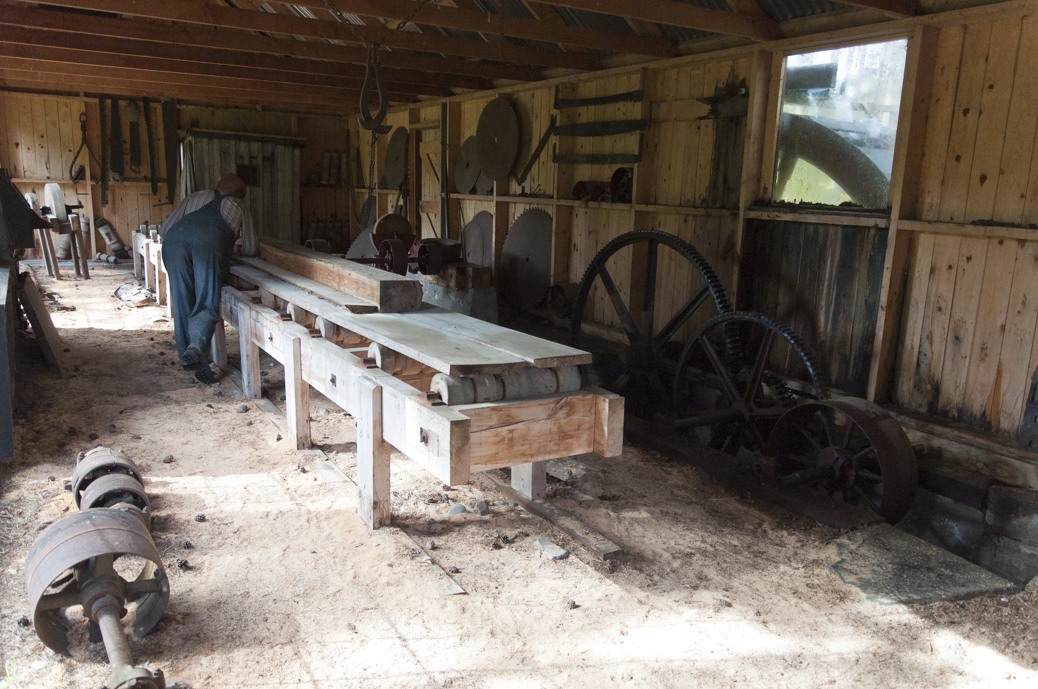 Arverikie Estate Sawmill, Highland Folk Museum, Newtonmore, Scotland